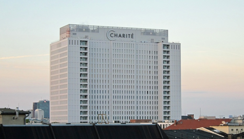 Charité University Hospital Berlin after renovation in 2016